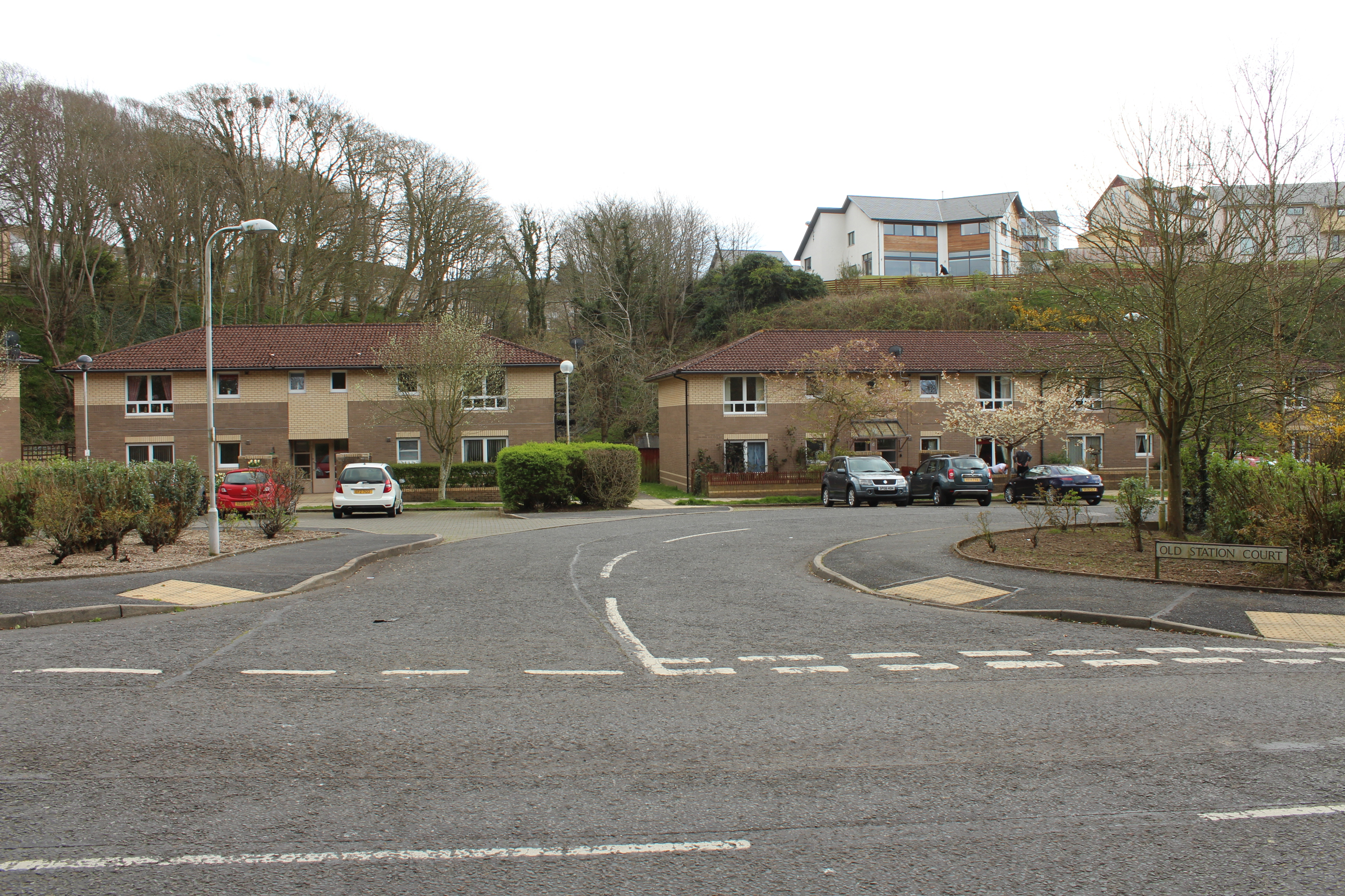 Old Station Court, Portpatrick